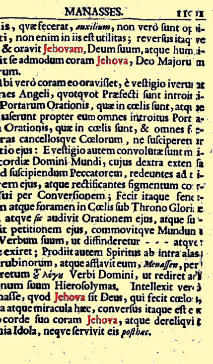 Excerpt from a Latin translation of the Targum included at Codex Pseudepigraphus Veteris Testamenti (Johann Albert Fabricius, 1713, p. 1101, available here). The Latin form Jehova is used for the "Deo Majoru majorum".